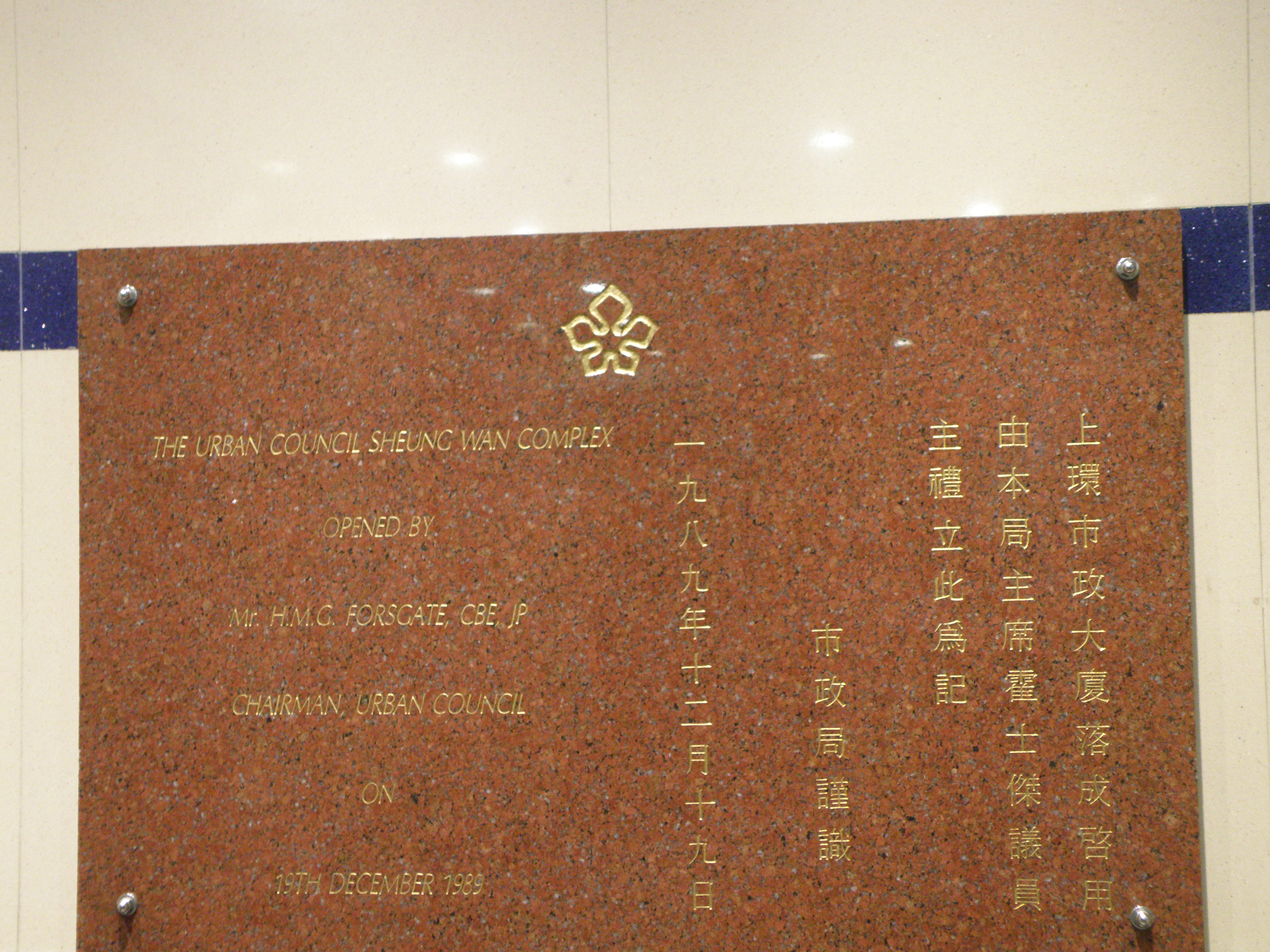 Sheung Wan Municipal Services Building in Sheung Wan, Hong Kong.